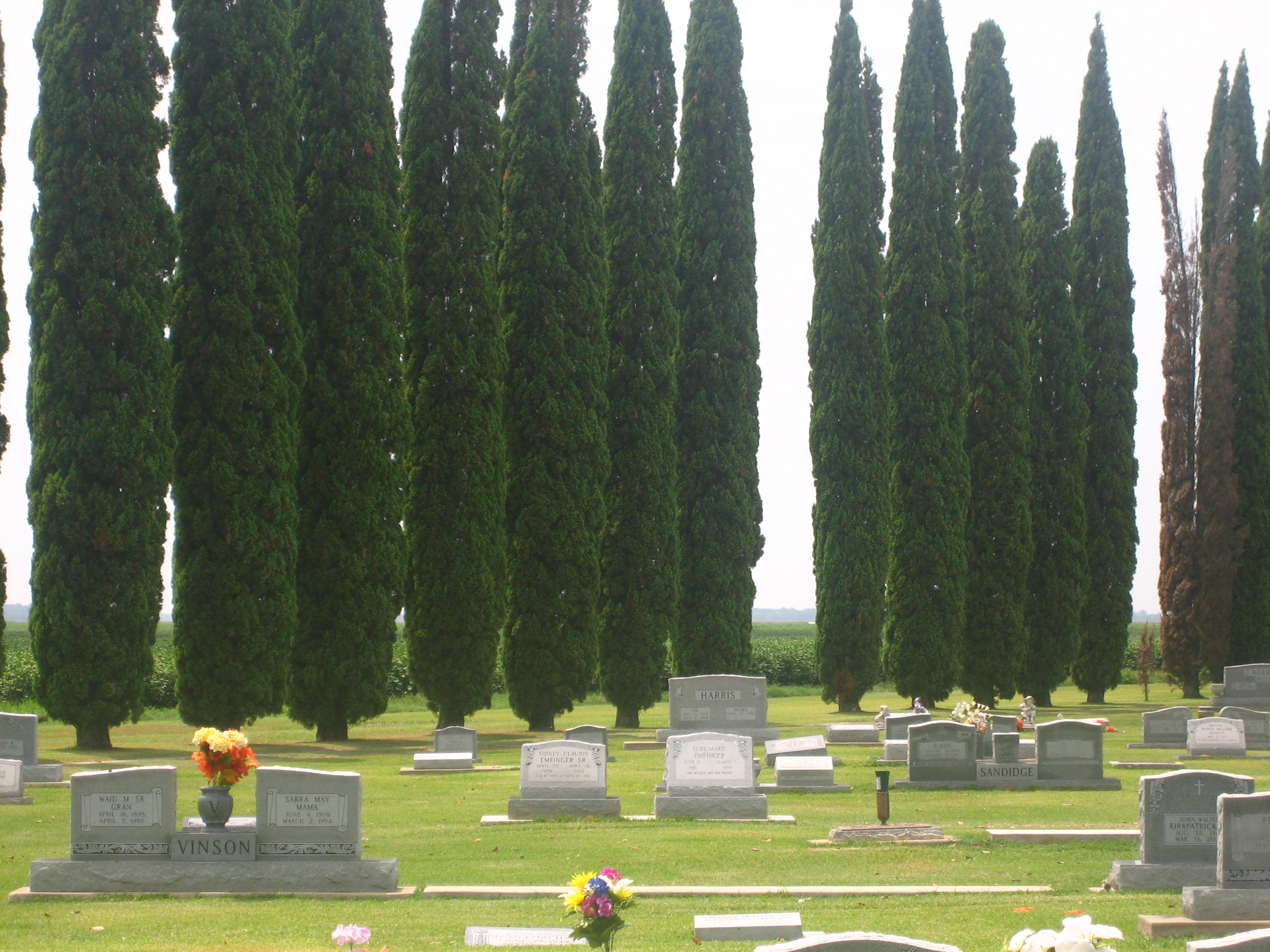 I took photo on Aug. 2, 2008.Billy Hathorn (talk) 02:02, 16 August 2008 (UTC)